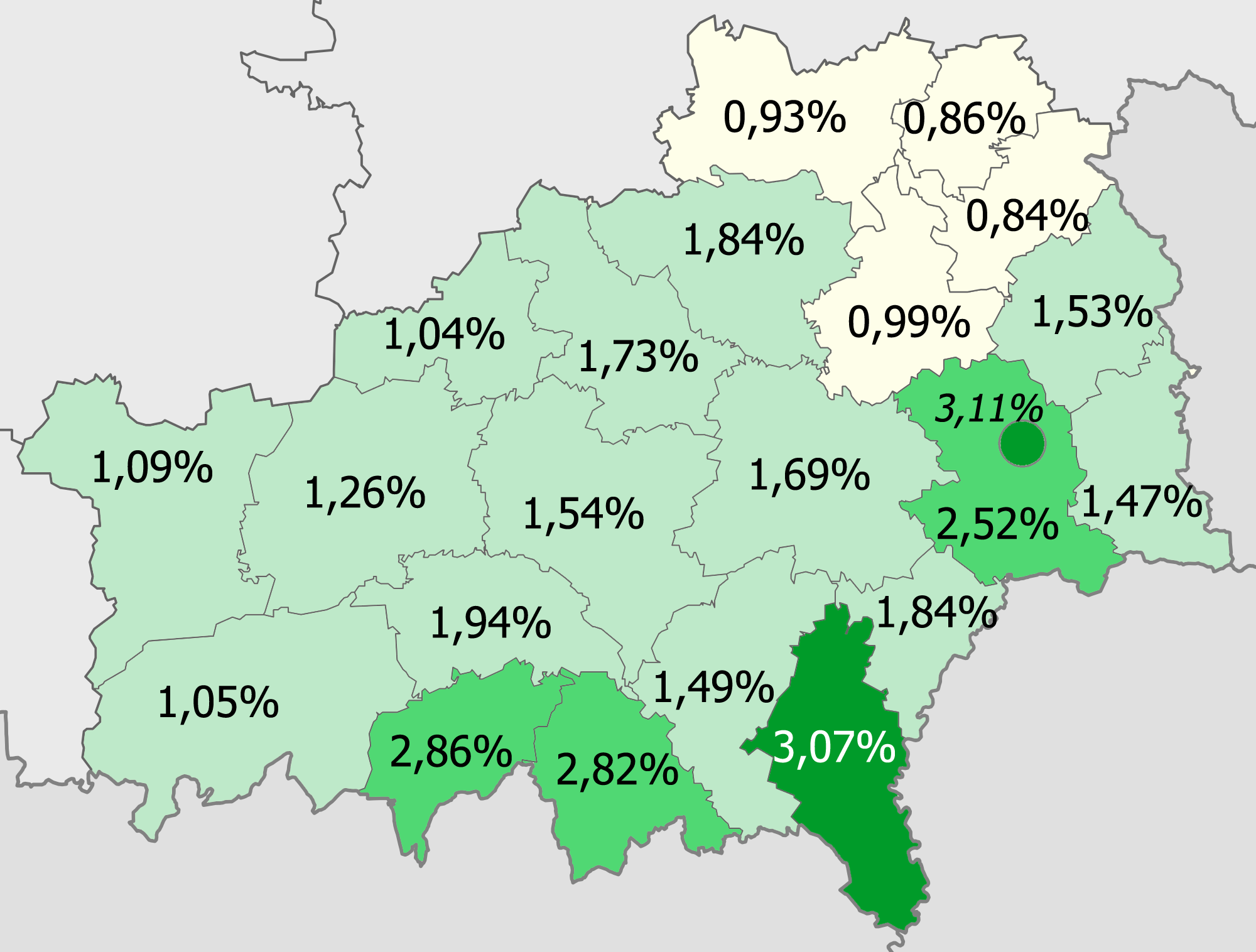 Ukrainians in Homieĺskaja voblasć, Belarus, according to 2009 census